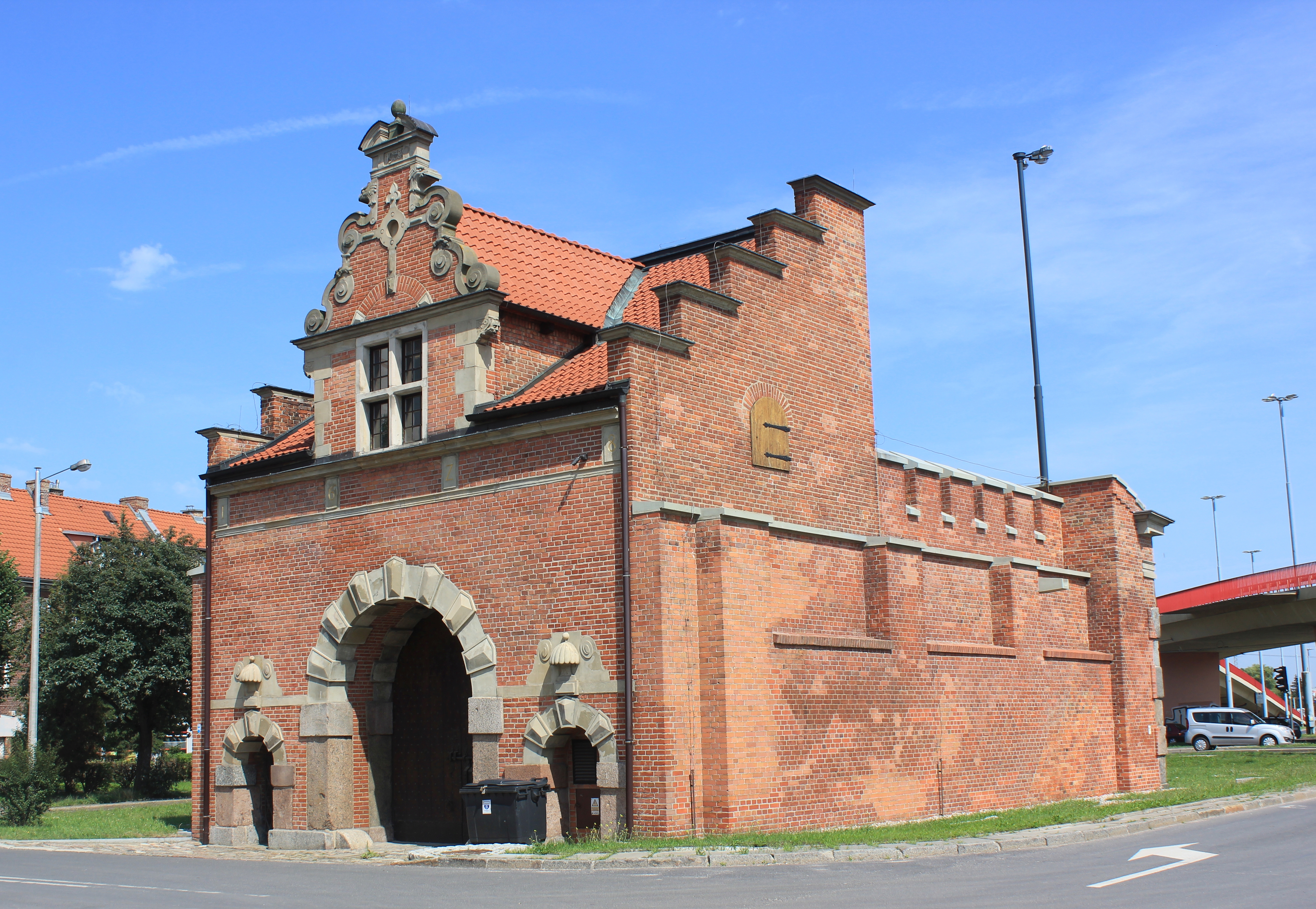 Gdańsk - Żuławska Gate